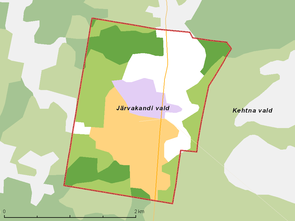 Map of municipality in Estonia